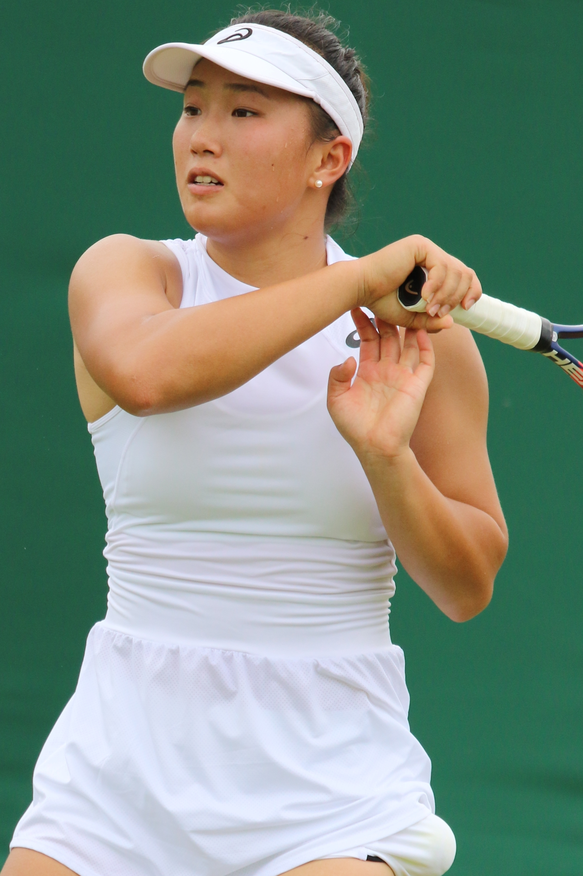 2019 Wimbledon Qualifying Tournament.